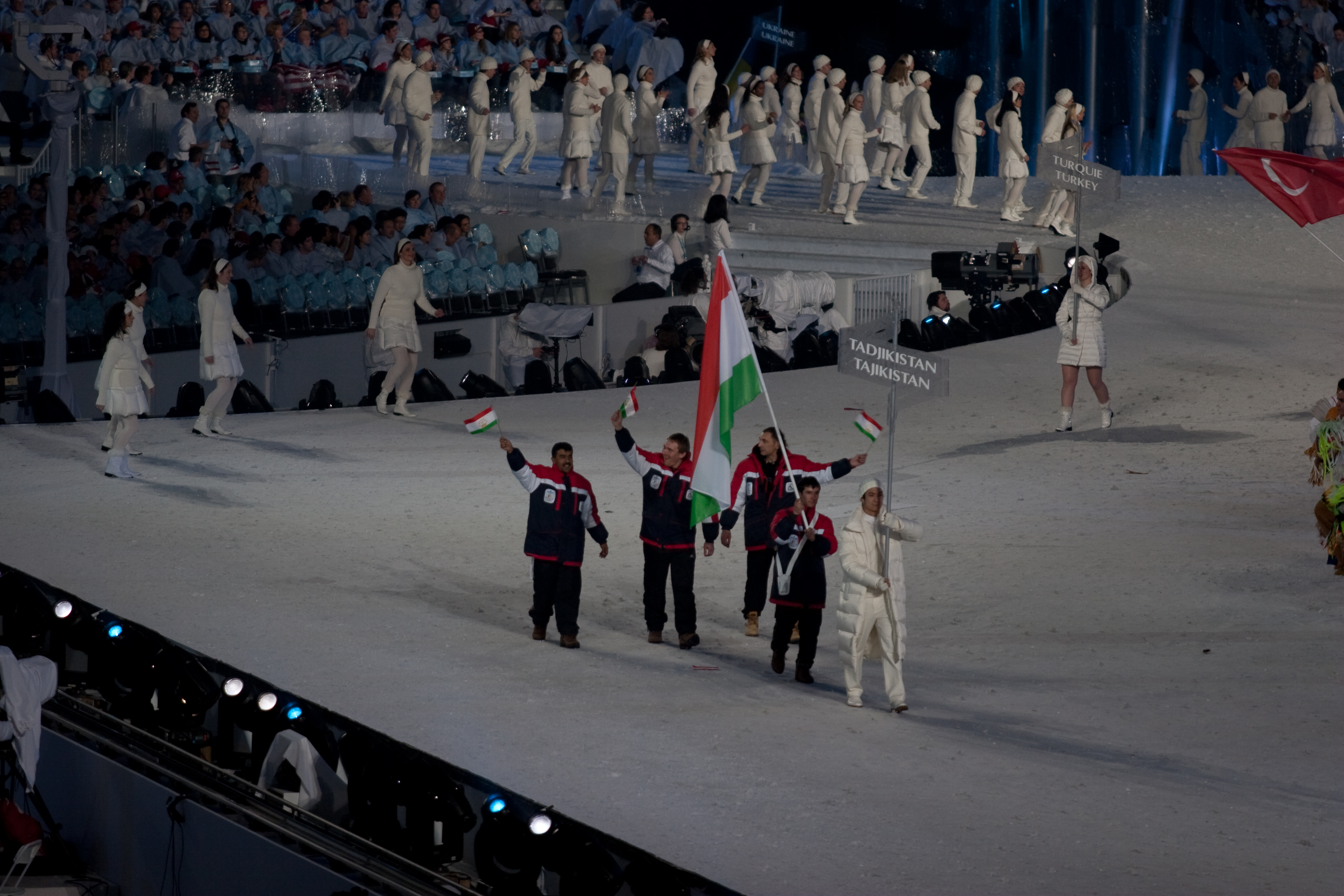 The athletes from Tajikistan entering the stadium at the opening ceremonies of the 2010 Winter Olympics, with Alisher Kudratov carrying the national flag.